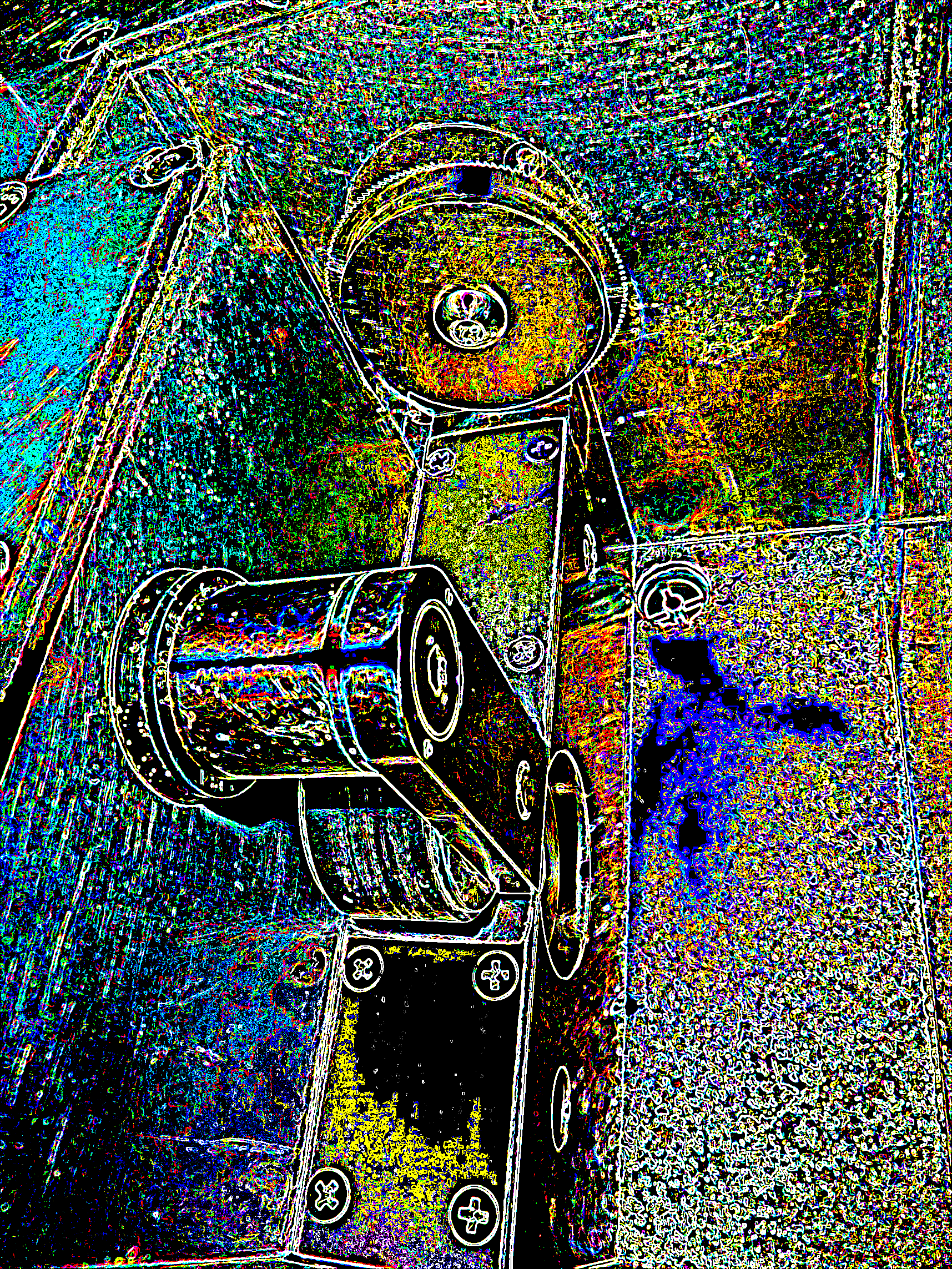 THIS PNG IS AN EXAMPLE OF MY PROCESS OF DIGITALLY EXPOSING AND AMPLIFYING COLORS AND LINES NOT VISIBLE TO THE UNAIDED EYE. DIGITALLY AMPLIFIED PHOTOGRAPH